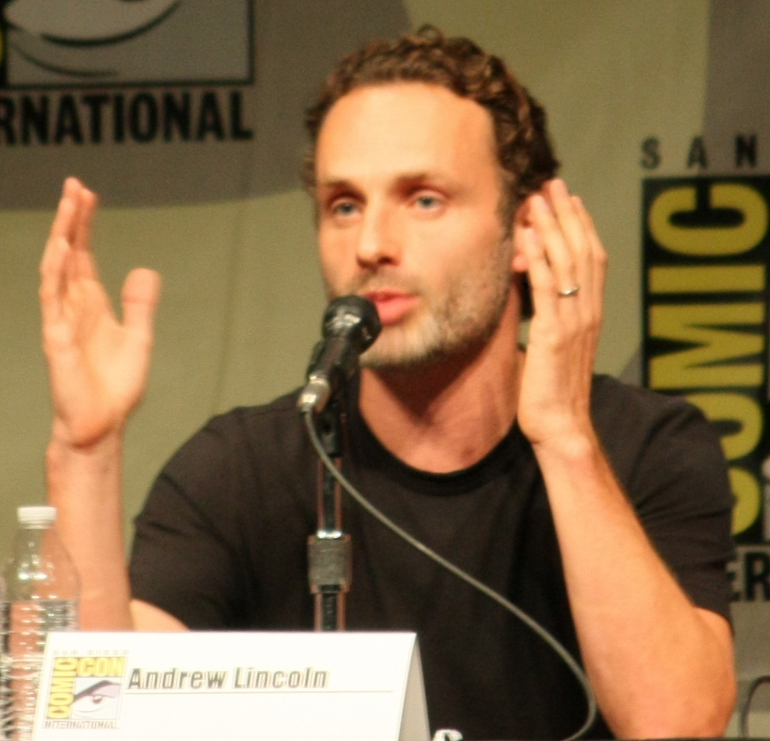 Andrew Lincoln at the 2012 Comic-Con in San Diego.